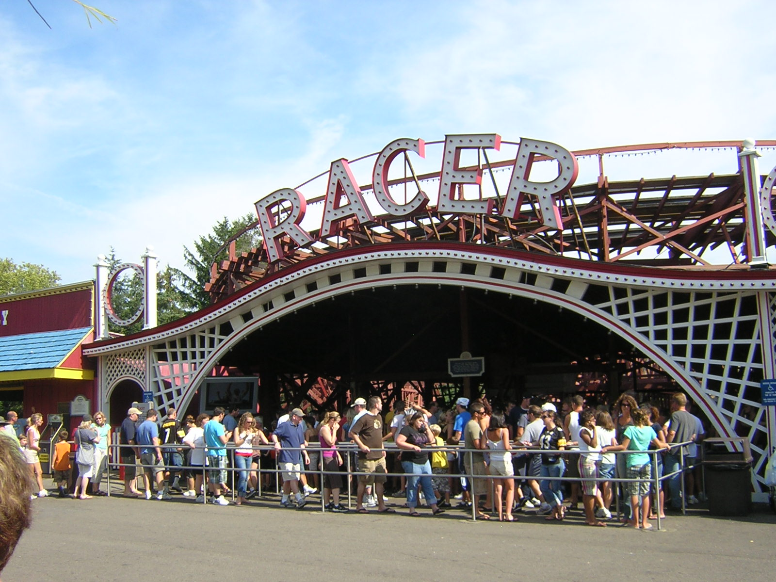 A scene from Kennywood, an amusement park located in West Mifflin, Pennsylvania on the Monongahela River. This is a view of the Racer, a wooden roller coaster. It is a racing, moebius loop coaster; one of only three in the world. The current Racer was designed by John A. Miller in 1927 and built by Charlie Mach. This is a view of the entrance to the station, showing lines of riders. A historical plaque is mounted on the central post. Tracks (a sweeping curve both trains take) can be seen above the station.